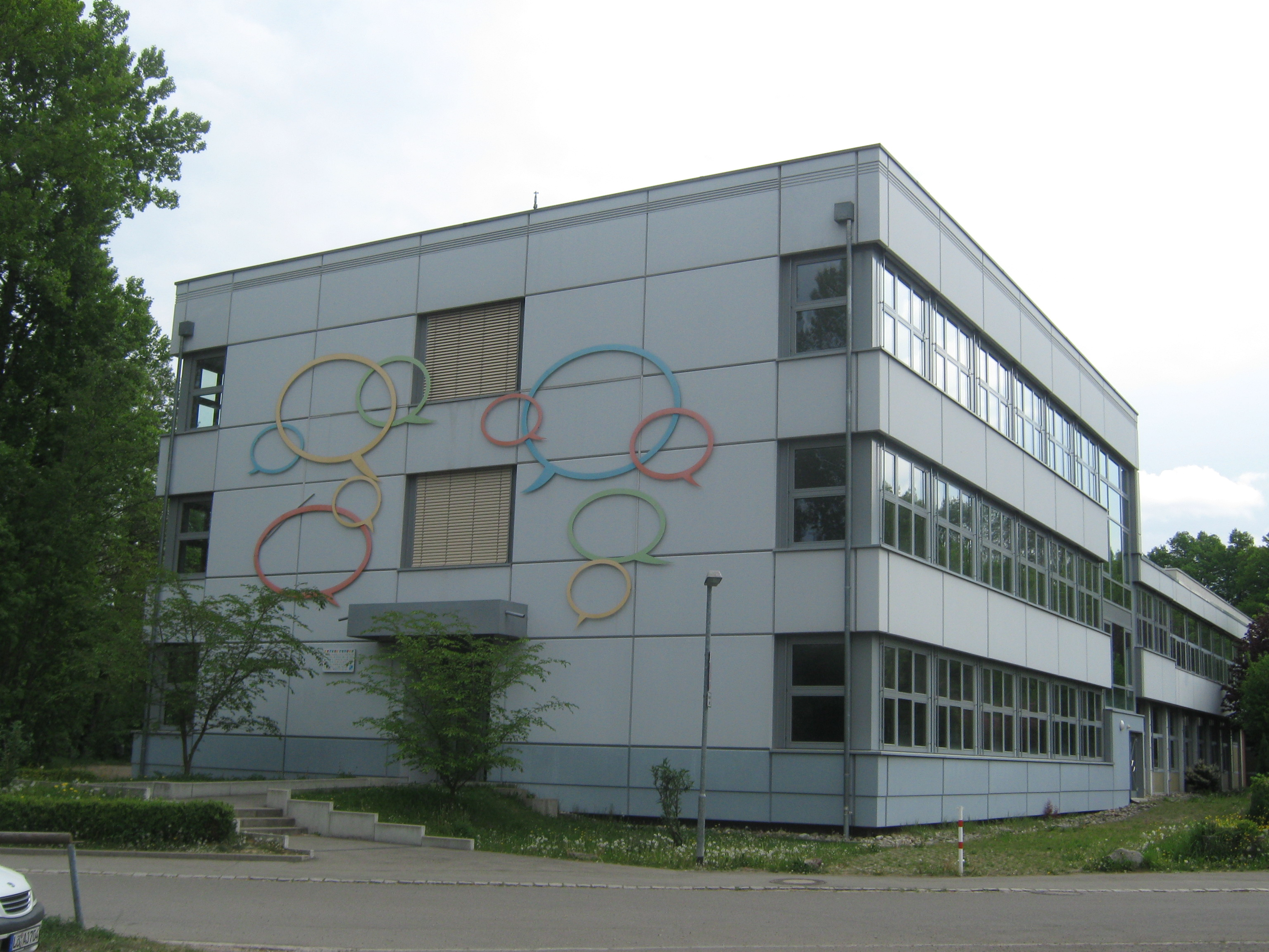 Theodor-Heuss Gymnasium in Schopfheim: Front view of the newest part of the building